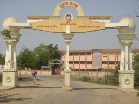 This is Gate Way to Mota from Bardoli, School is seen on background